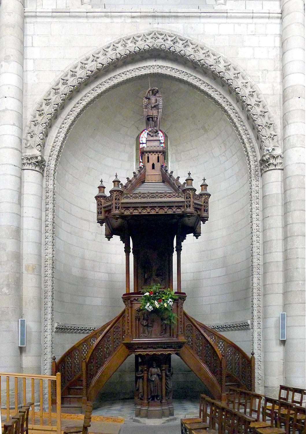 Trinité church (Angers, France)